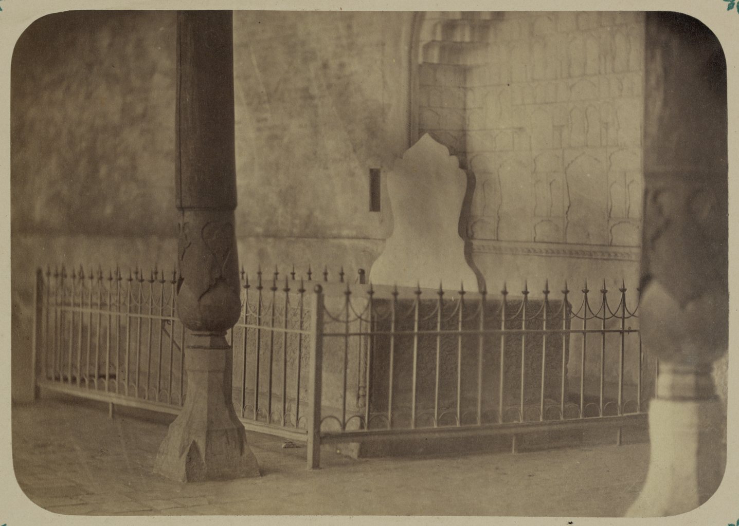 This photograph of the interior of the palace of the emirs of Bukhara in Samarkand (Uzbekistan) is from the archeological part of Turkestan Album. The six-volume photographic survey was produced in 1871-72 under the patronage of General Konstantin P. von Kaufman, the first governor-general (1867-82) of Turkestan, as the Russian Empire’s Central Asian territories were called. The album devotes special attention to Samarkand’s Islamic architectural heritage. This view shows the throne in the ceremonial palace of the emirs, who ruled Samarkand after the expulsion of the Timurids in the early 16th century. The palace was referred to as “Kok Tash” after the legendary throne of Timur (Tamerlane), who built a citadel in Samarkand. The extant carved throne with its high back was apparently not that of Tamerlane, but the site was nonetheless protected behind an iron railing. The background wall was lavishly surfaced with polychrome ceramic tiles in geometric and botanical patterns. Also visible is an arch niche that frames the throne and culminates in a mocárabe, or “stalactite” vault. The monolith in front of the throne also has carved ornamentation. This space is on a dais that overlooks a columned courtyard, which would accommodate audiences on official occasions. The columns of the courtyard, like the ones shown here, were of carved wood on complex bases of marble. Castles and palaces; Islamic architecture; Photographic surveys; Thrones; Timur, 1336-1405